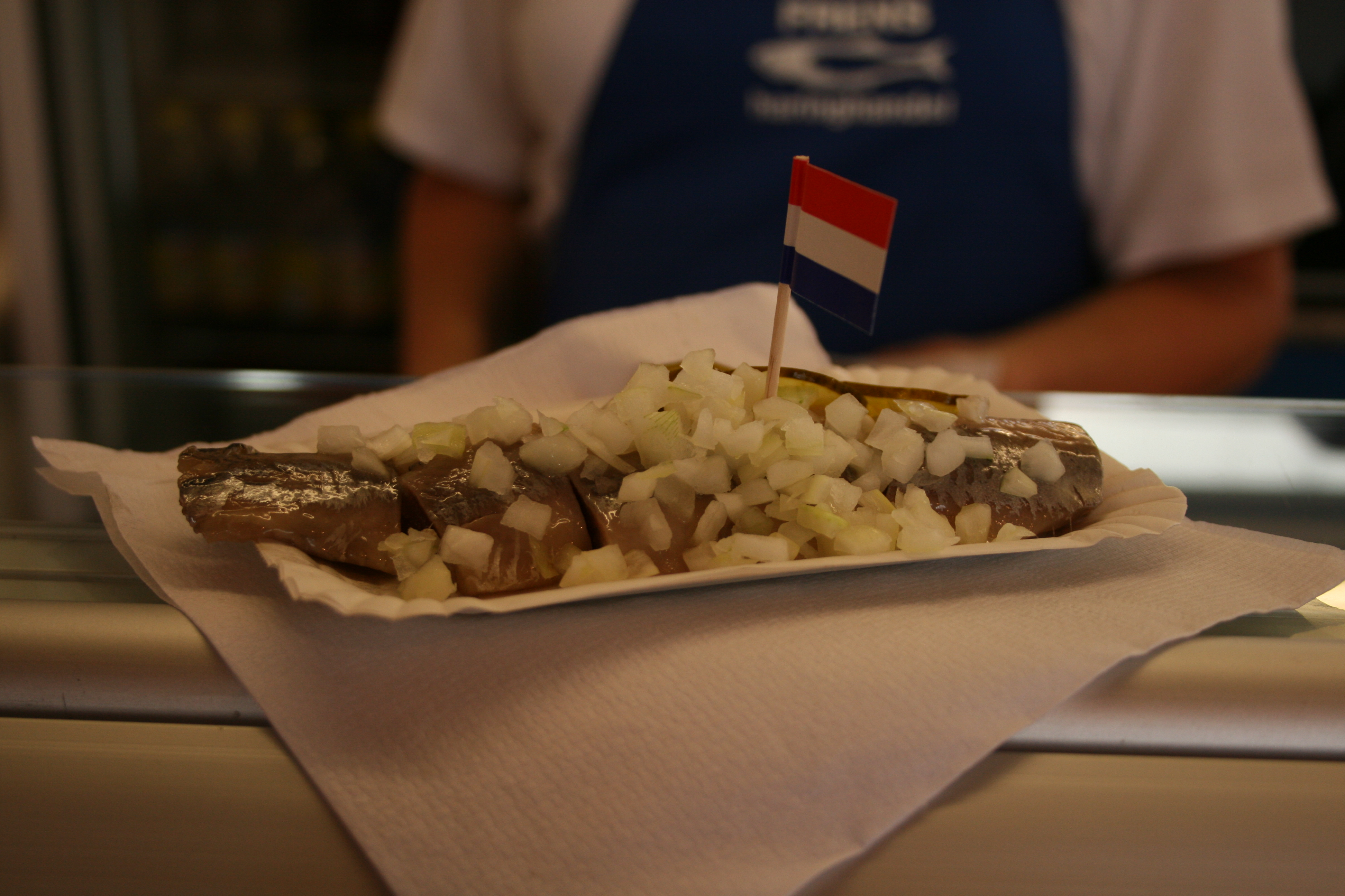 Hering